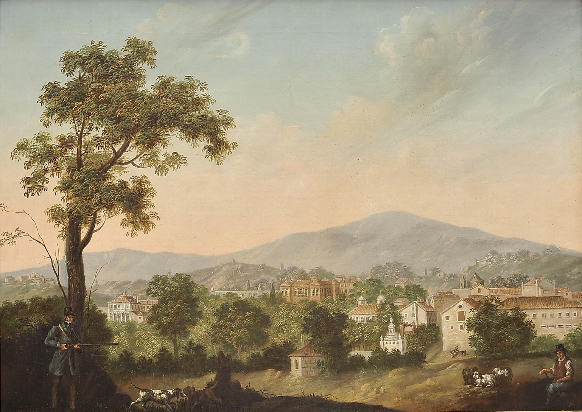 View of São Domingos de Benfica, with a huntsman and shepherd, 19th-century, by Maria Guilhermina Silva Reis